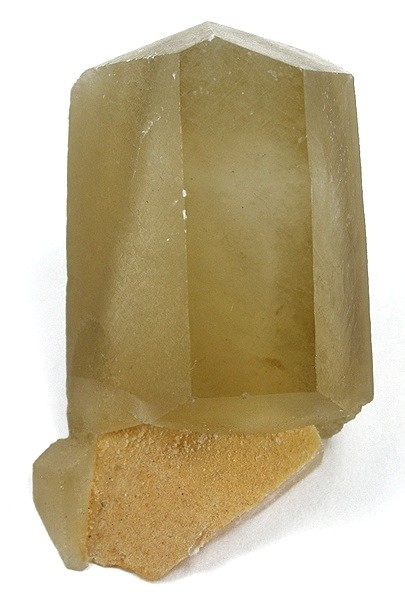 Calcite Locality: Shangbao Pyrite mine, Leiyang County, Hengyang Prefecture, Hunan Province, China (Locality at ) Size: 4.6 x 3.3 x 2.5 cm. A sharp, complete all-around, translucent, lustrous, hexagonal, honey-brown calcite crystal aesthetically impaled on a shard of matrix from recent finds at the Shangbao Mine of China. Highly representative of this classic form.